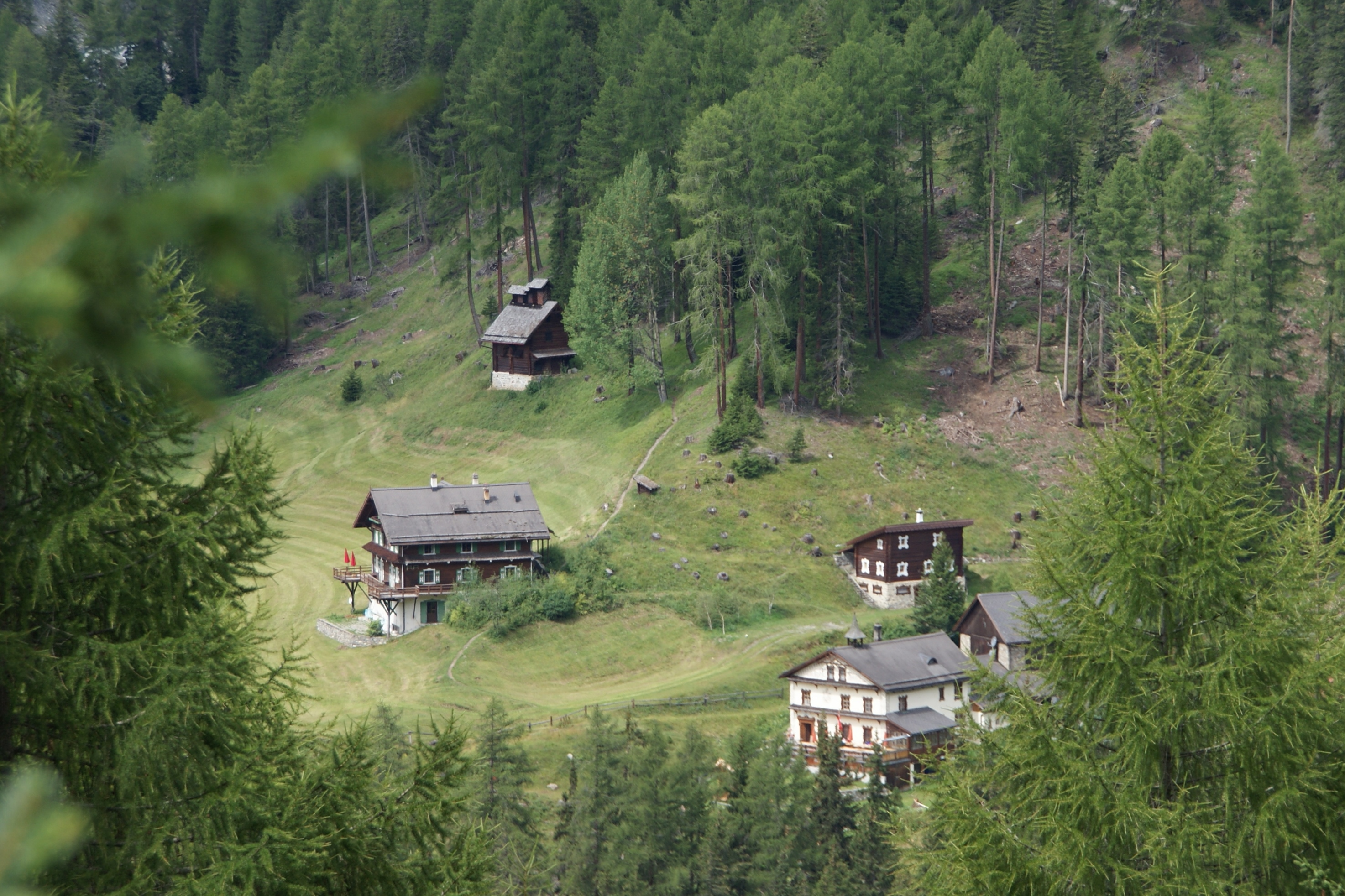 Hof Zuort, Lower Engadine